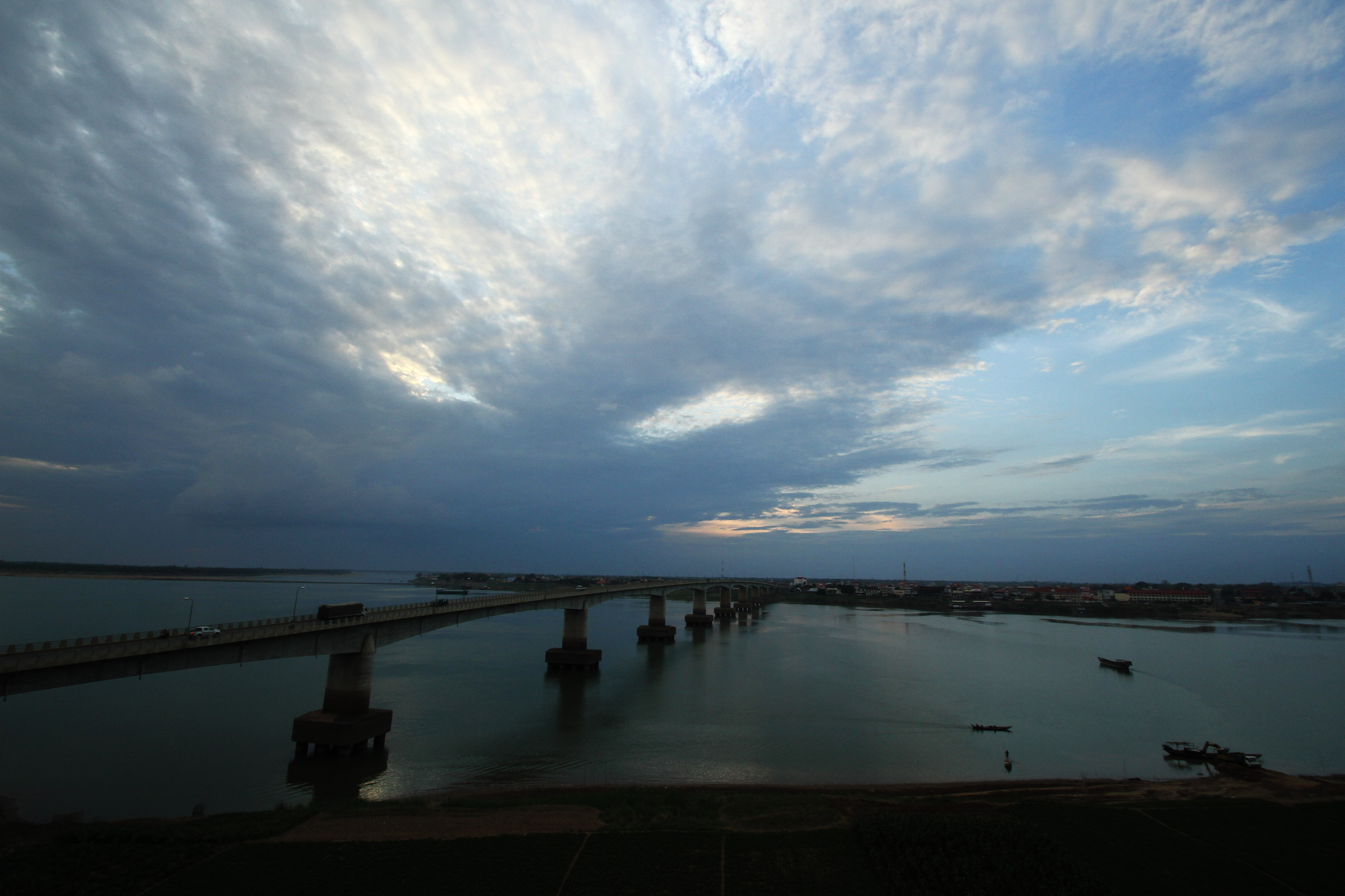 Bridge over the Mekong, Kompong Cham